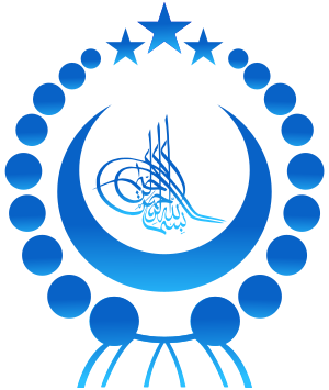 Eastern Turkestan arms